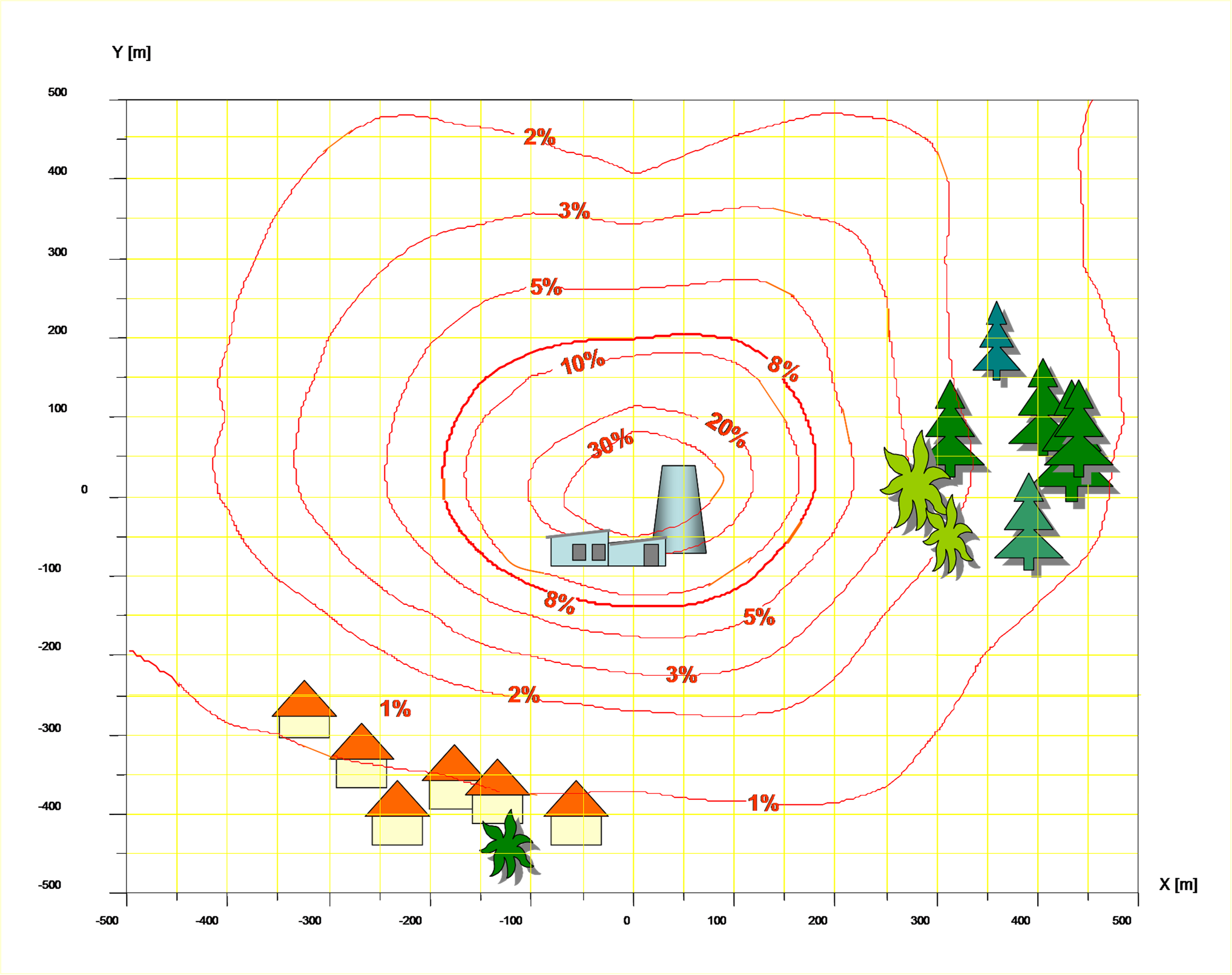 The modelling of dispersion odorants - estimation of the frequency of odours event in a year (results - the demonstrative example)